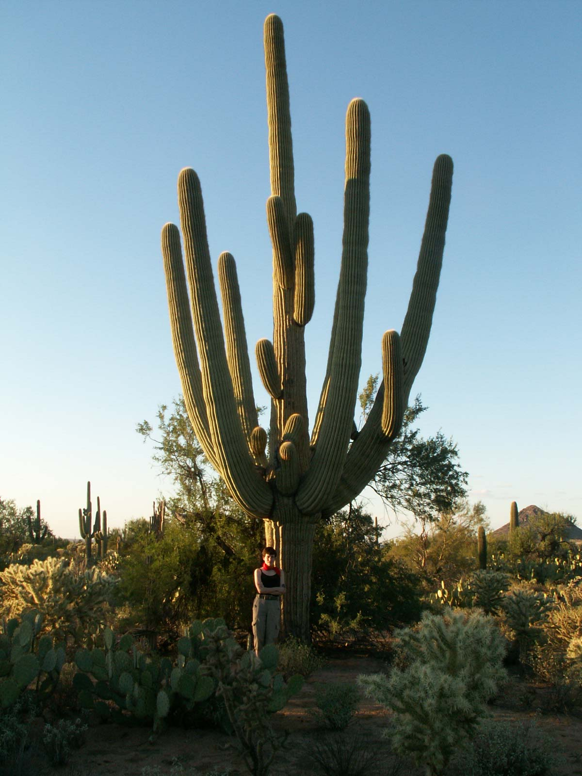 This very huge Saguaro (maybe up to 200 years old), my wife and me found right outside the Saguaro National Park near Tucson, Arizona This Picture was taken by myself, Jörn Napp, Hamburg, Germany, near Tucson, Arizona in October 2006